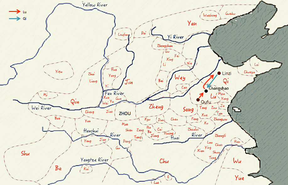 Map showing the Battle of Changshao between Qi and Lu states